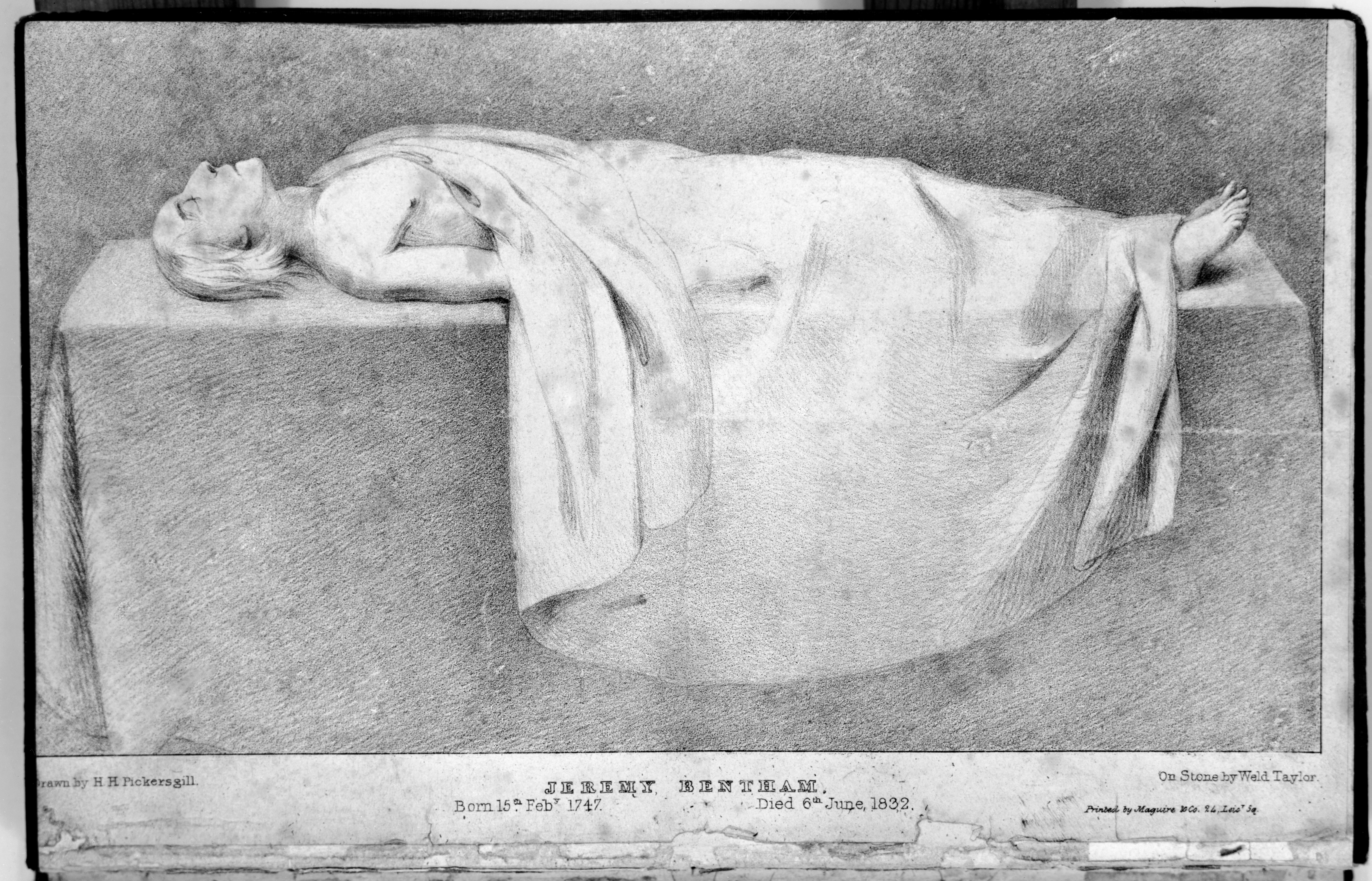 "the Mortal Remains" of Jeremy Bentham, laid out for public dissection. Drawn by H. H. Pickersgill, on stone by Weld Taylor Wellcome Images Keywords: dissection, public; donor, body; Anatomy; Jeremy Bentham; Thomas Southwood Smith; Weld Taylor; H. H. Pickersgill